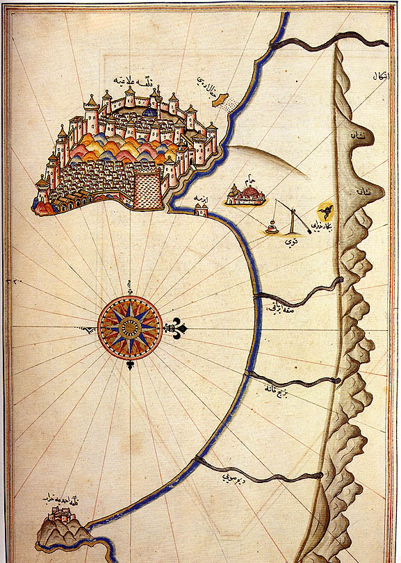 Alanya in Turkey on the Kitab-ı Bahriye (Book of Navigation) of Piri Reis. Notice the Kızıl Kule and the five arches of the Tersane by the seaside, and the one gate on the mountain side.